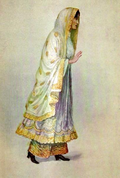 "A Khoja lady, Bombay," a watercolor by Rao Bahadur M. V. Dhurandhar, 1928; more watercolors from the set: *"A working woman at Ajmere"* *"ABengali lady"* *"A Bhatia lady"* *"A Bhil girl"* *"A Bombay lady"* *"A Borah lady, Surat"* *"Born beside the sacred river"* *"A Brahman lady"* *"From Burmah"* *"Cambay type"* *"A dancer in Mirzapur"* *"A dancer from Tanjore"* *"A widow in the Deccan"* *"A dyer girl, Ahmedabad"* *"A fisherwoman, Sind"* *"A fishwife of Bombay"* *"A denizen of the Western Ghauts"* *"A gipsy woman"* *"A Gond woman"* *"A glimpse at a door in Gujarat"* *"A Gurkha's wife"* *"A Jain nun"* *"A lady from Jodhpur"* *"In the happy valley of Kashmir"* *"A Muslim artisan, Kathiawad"* *"A Khoja lady, Bombay"* *"A Mahar woman"* *"A Marathi lady"* *"A Memon lady walking"* *"A lady from Mewar* *"The milkmaid"* *"A mill hand"* *"A Mussulman lady"* *"A Mussulman nautch-girl"* *"A Mussulman weaver"* *"A lady from Mysore"* *"A Nagar beauty"* *"A Naikin in Kanara"* *"A Nair lady"* *"Parsi fashion"* *"A Pathan woman"* *"A Pathare Prabhu lady"* *"A Rajput lady, Kutch"* (shown above) *"A Southern India type"* *"A sweeper lady"* *"A Toda woman in the Nilgiries"* *"A lady of the United Provinces"* Source: ebay, Aug. 2006